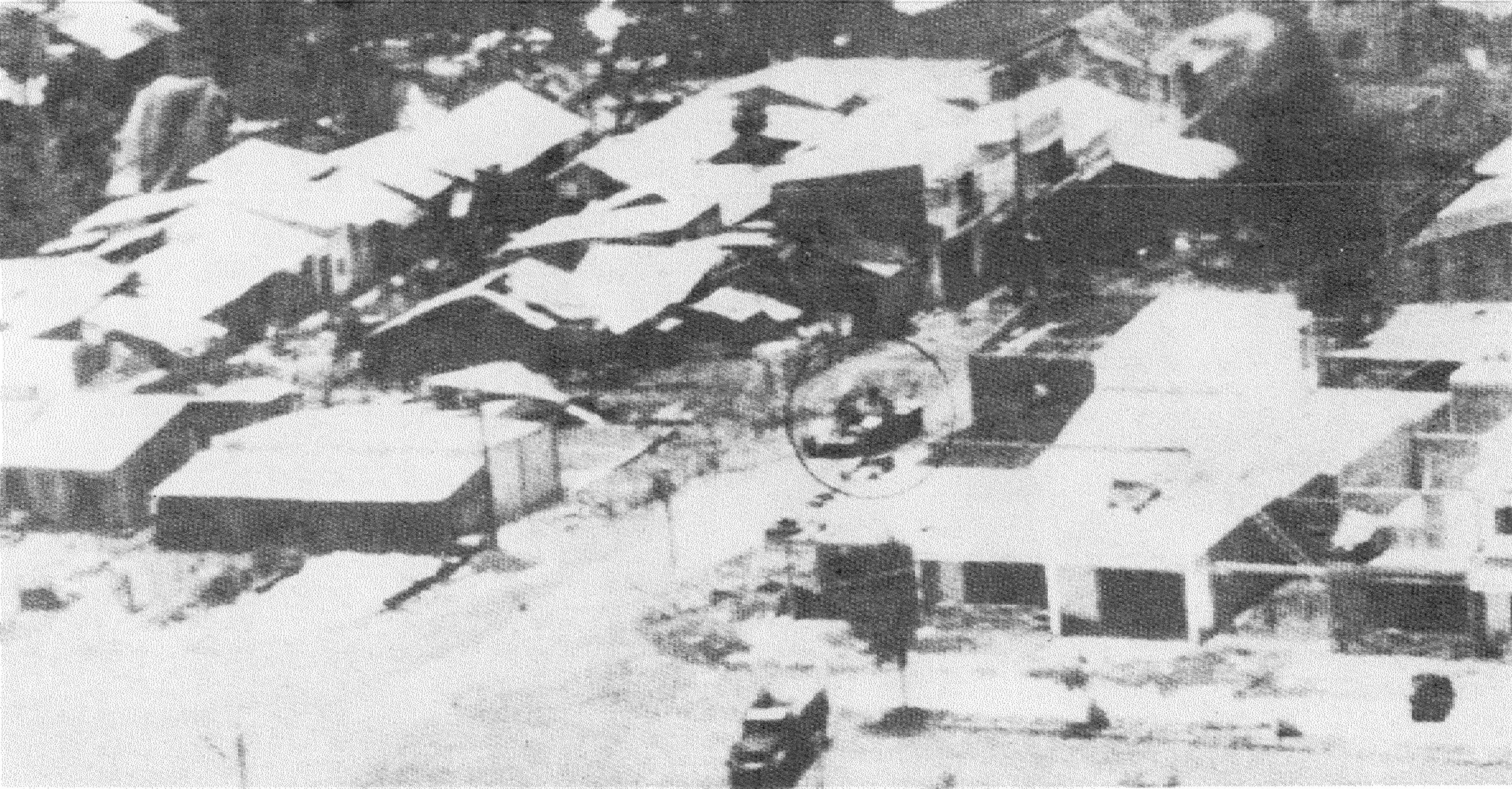 Knocked out North Vietnamese T-54 or Type 59 in An Loc